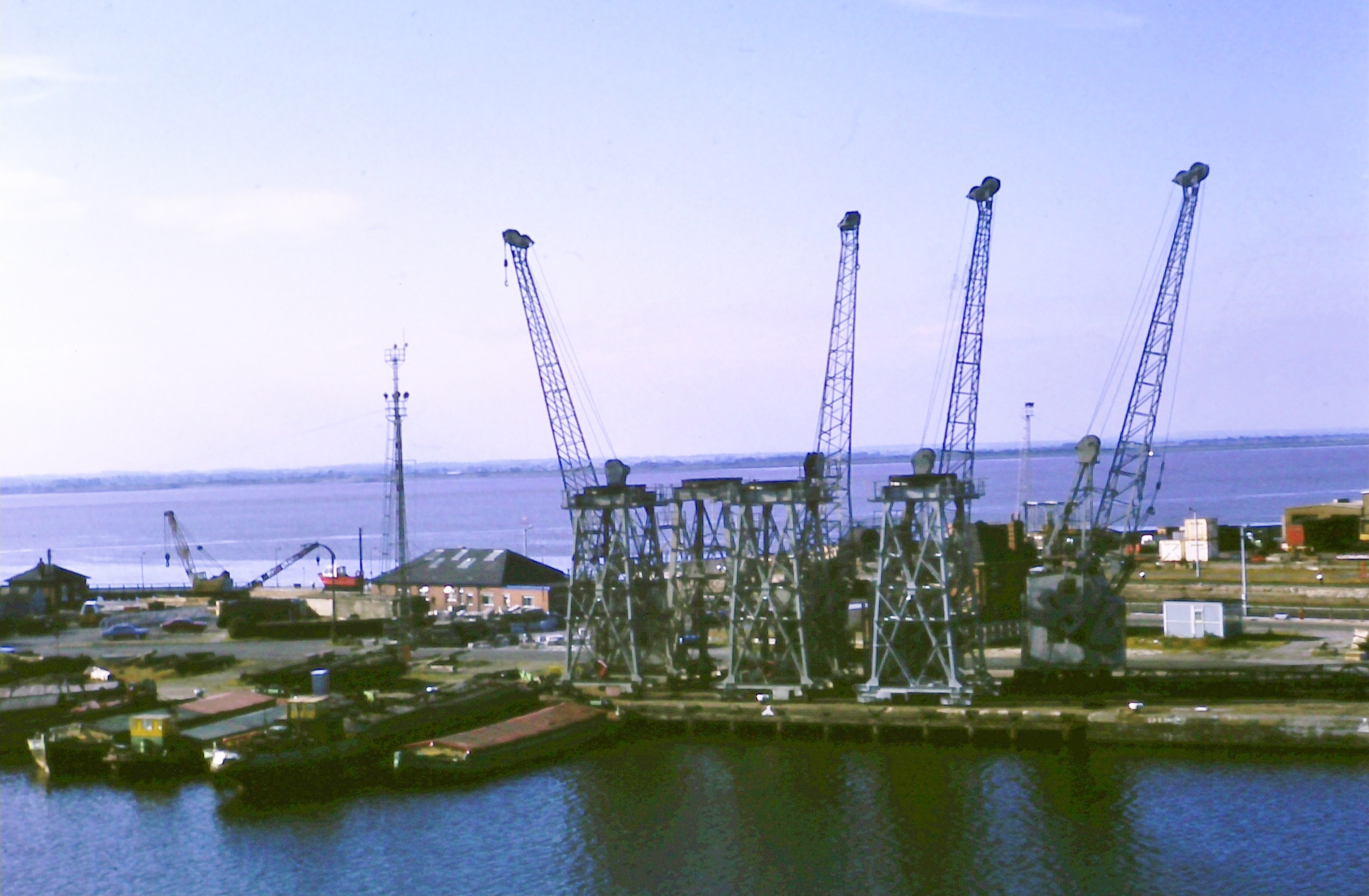 Hull cranes standing idle during the dockers' strike of 1984. The strike began on 8 July, paralysing 61 ports around the country. Fearful of rapidly felt food shortages, the government discussed emergency plans to mobilise troops to enter docks and unload 1,000 tons of food a day. However, the Transport and General Workers Union called off the strike within hours, fully aware that the miners would regard this action as a betrayal.